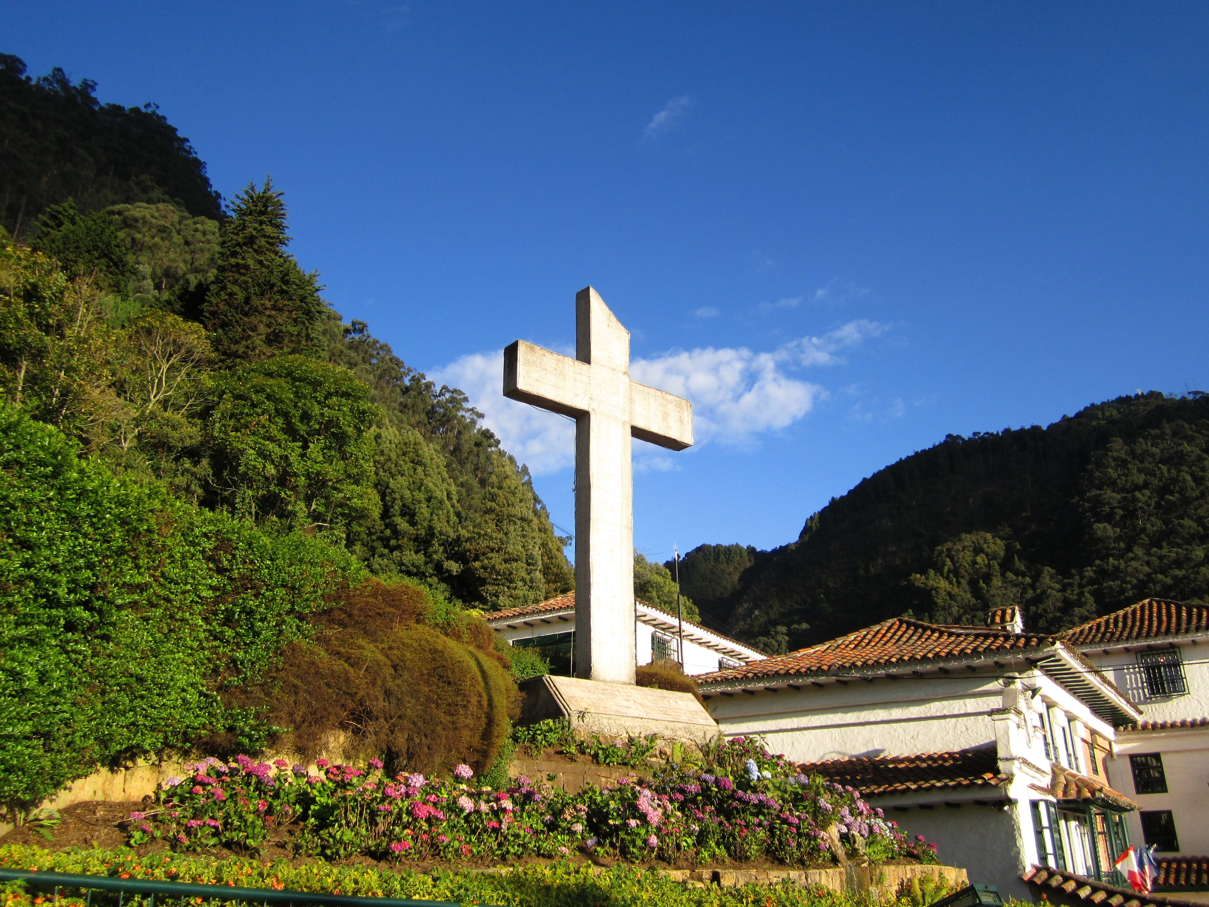 Cruz en la subida del funicular a Monserrate.